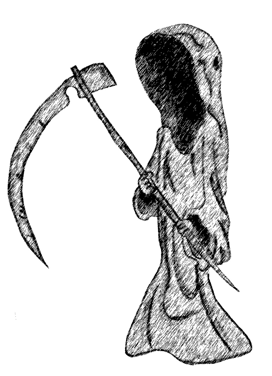 A drawing of the personification of death, drew by myself. (With help from Photoshop)